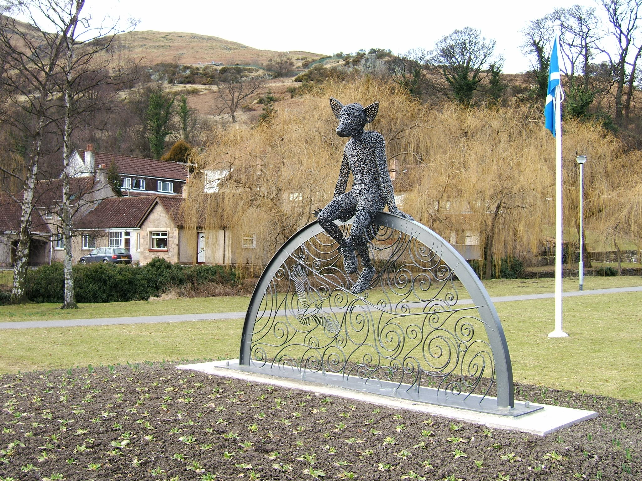 Photograph (taken 12-March-2010) of Fox Boy Sculpture by Andy Scott, installed in Midtown Gardens, Menstrie, Clackmannanshire, Scotland (GB grid ref NS 849 970) in late 2008.